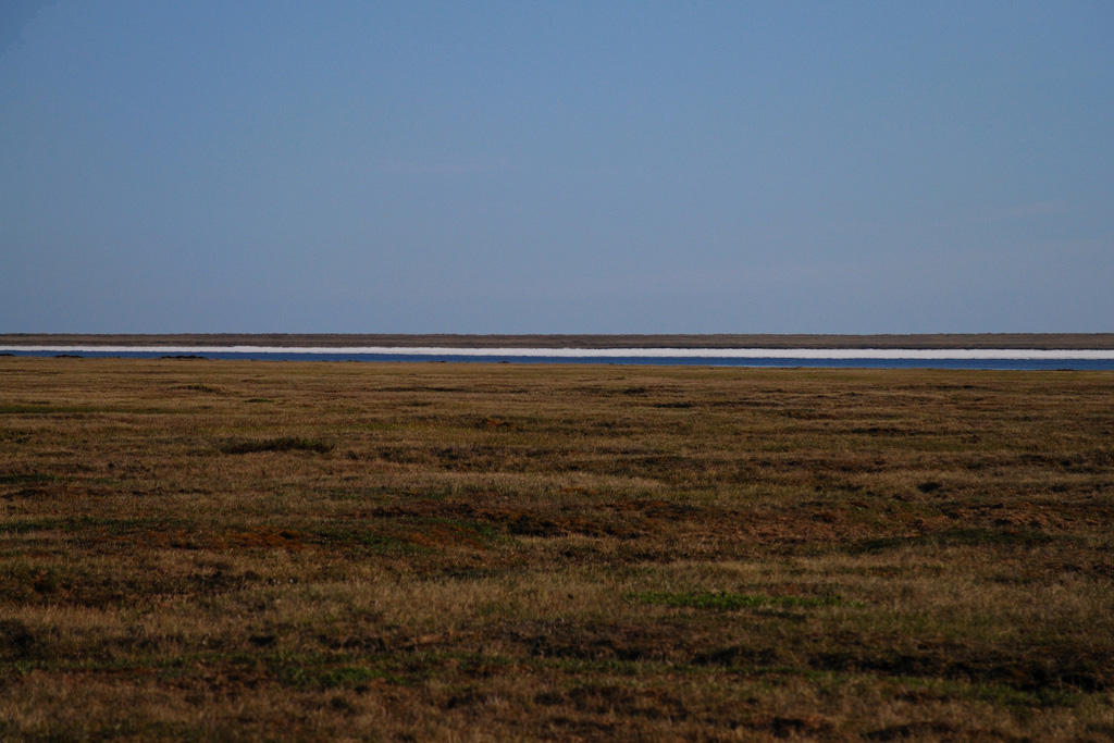 Arctic tundra in July (Barrow, Alaska)